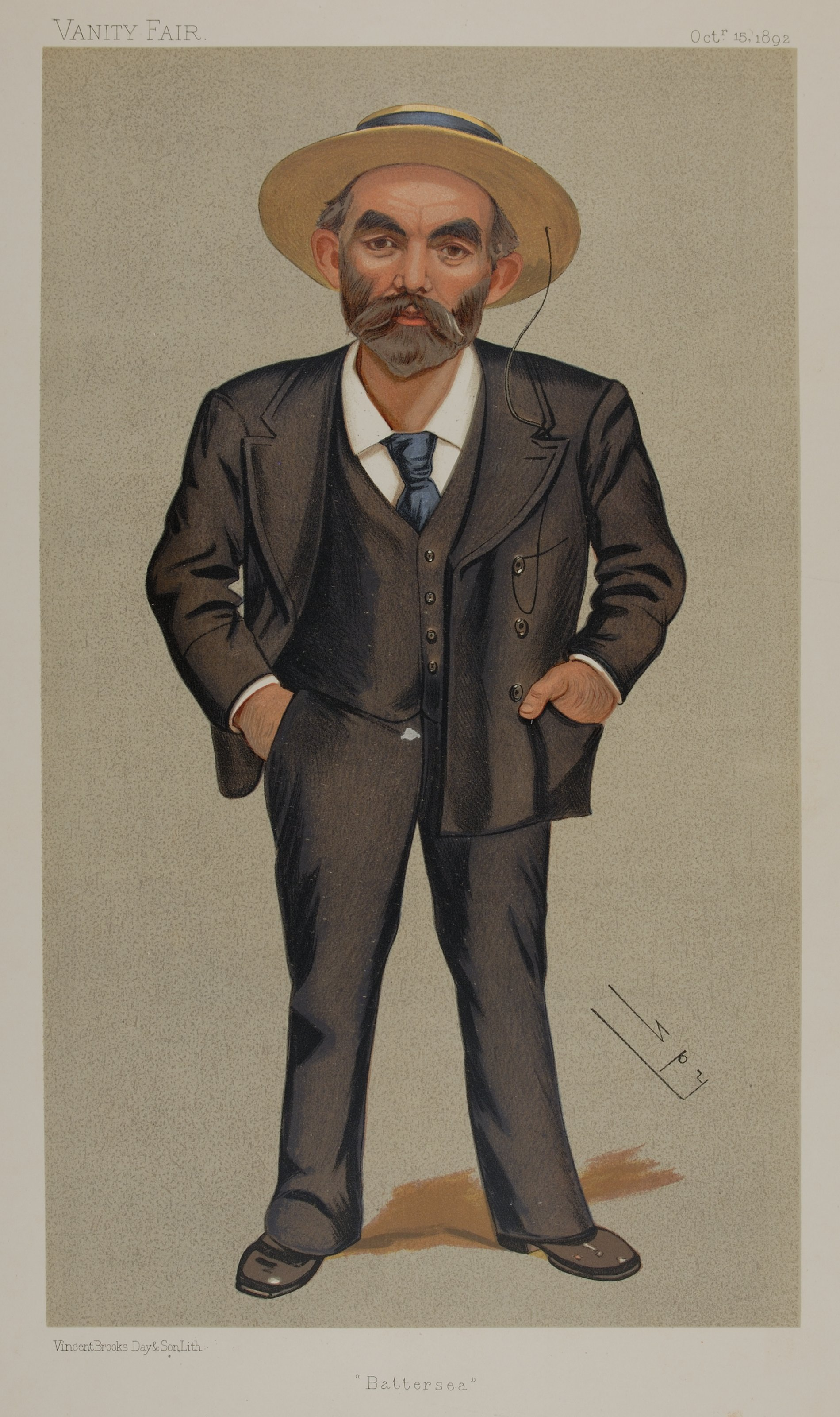 Statesmen No. 603: Caricature of John Burns, M.P.. Caption read "Battersea".